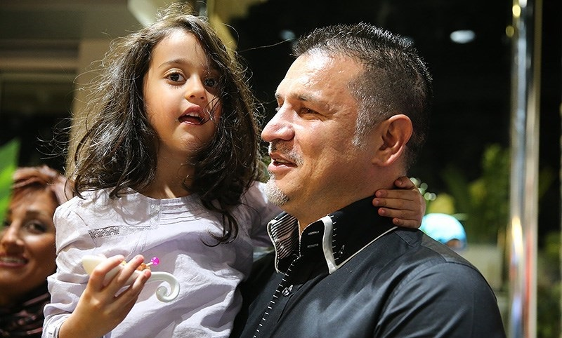 Ali Daei and his daughter Noura in opening of Ali Daei store